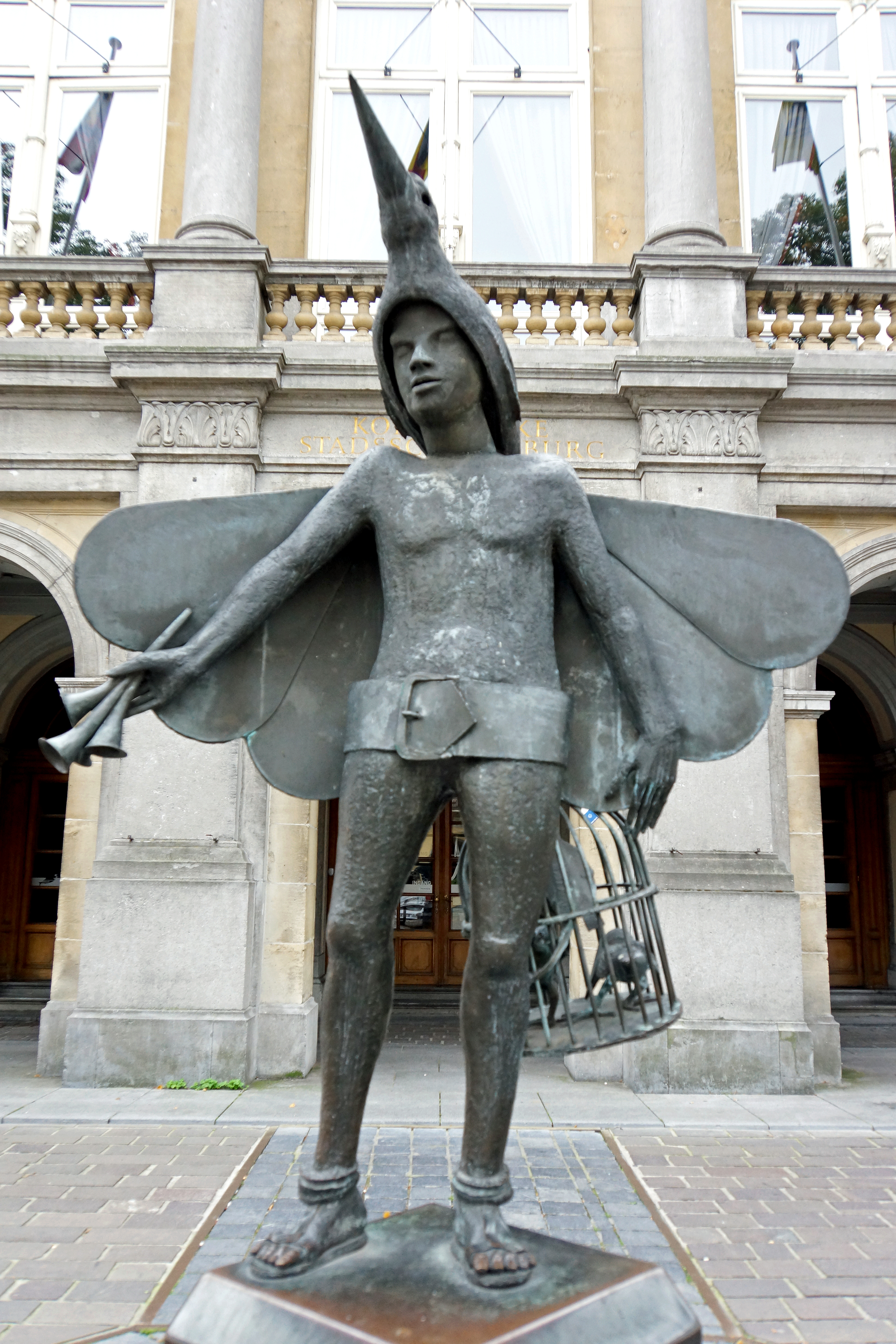 PLEASE, NO invitations or self promotions, THEY WILL BE DELETED. My photos are FREE to use, just give me credit and it would be nice if you let me know, thanks. Stadsschouwburg (City Theatre) is one of Europe’s best preserved city theatres (1869) boasts a palatial foyer and a majestic auditorium. It is the perfect setting for concerts and contemporary dance and theatre performances. Papageno, the bird seller from Mozart’s opera, The Magic Flute, guards the entrance. His score lies scattered on the square opposite.